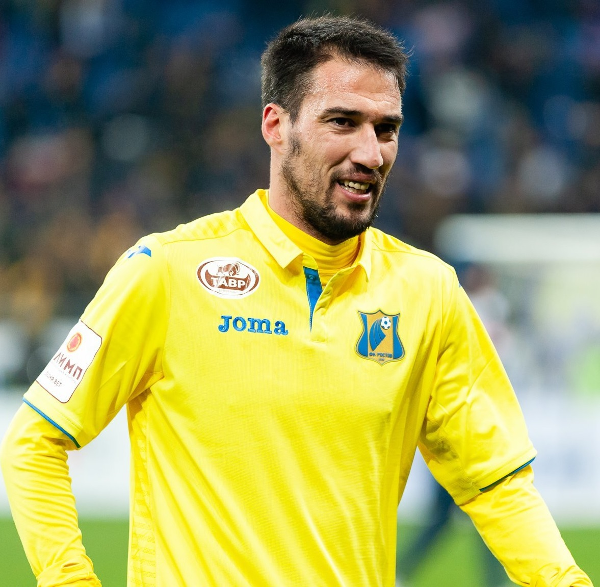 Ivelin Popov with FC Rostov in a Russian Cup game against FC Krasnodar.